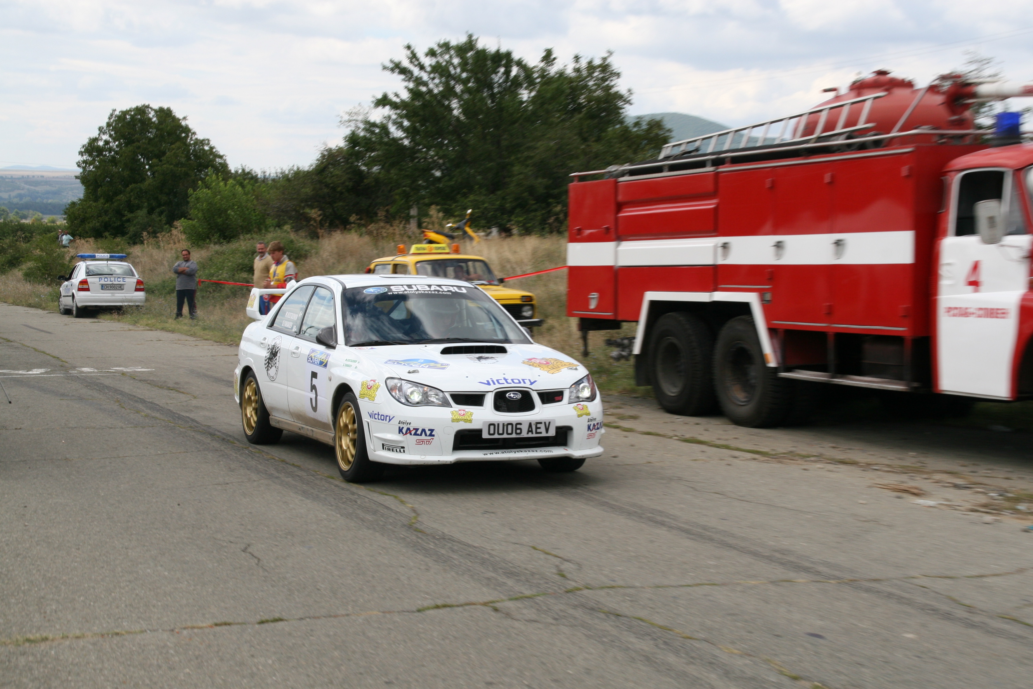 The bulgarian driver Martin Markov on "Sliven" Rally in 2006.